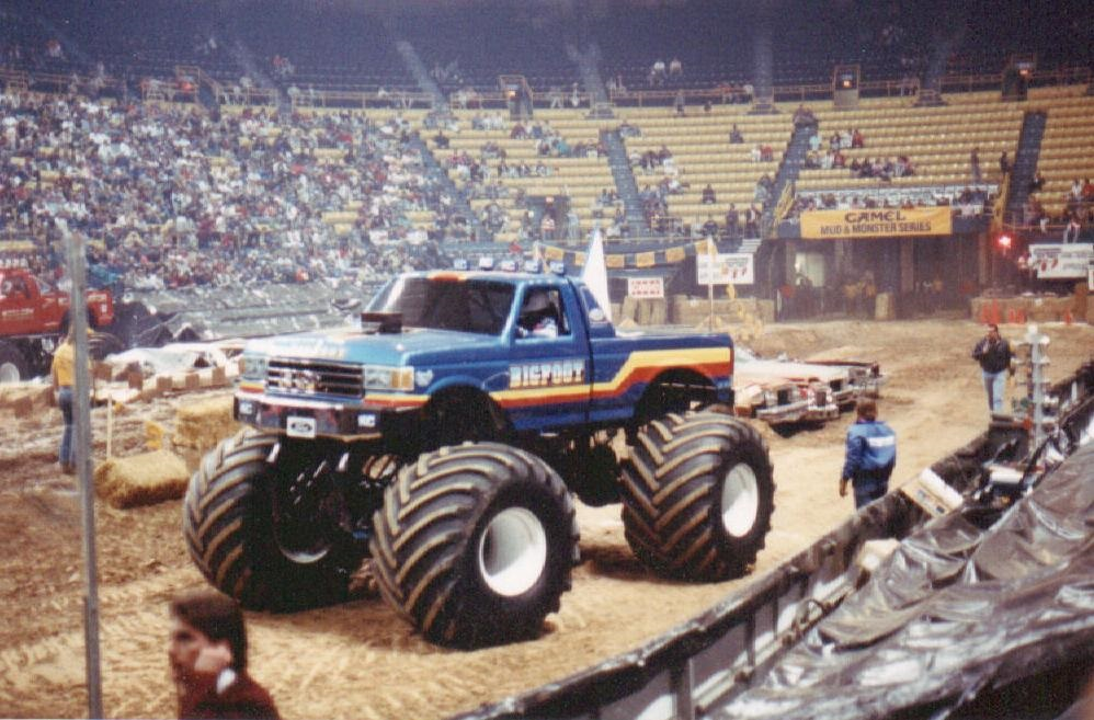 Bigfoot IV in St. Louis. Date unknown.